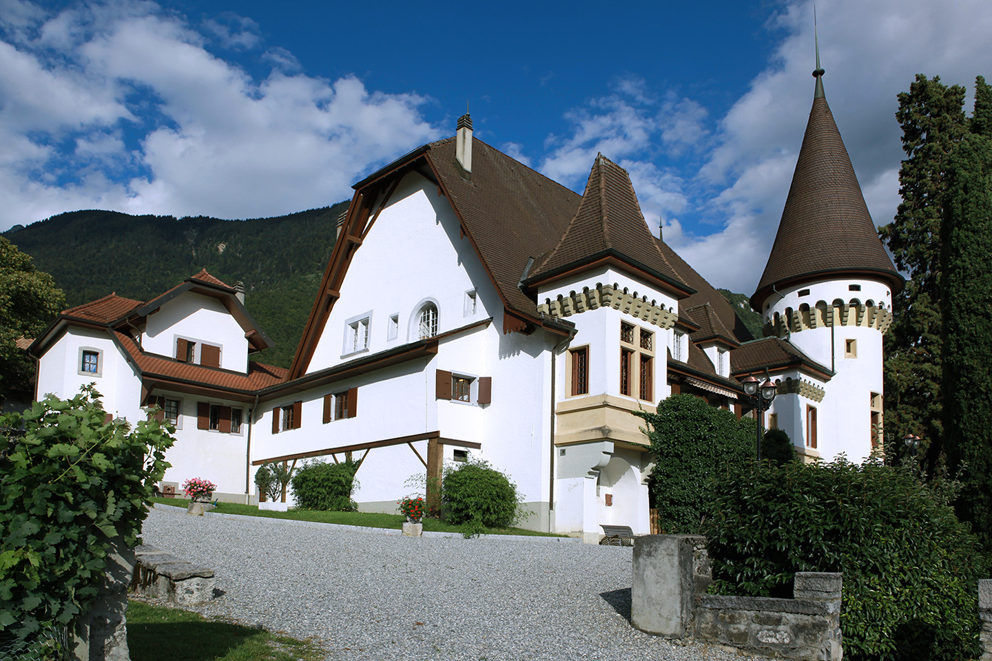 Picture of European University in Yvorne